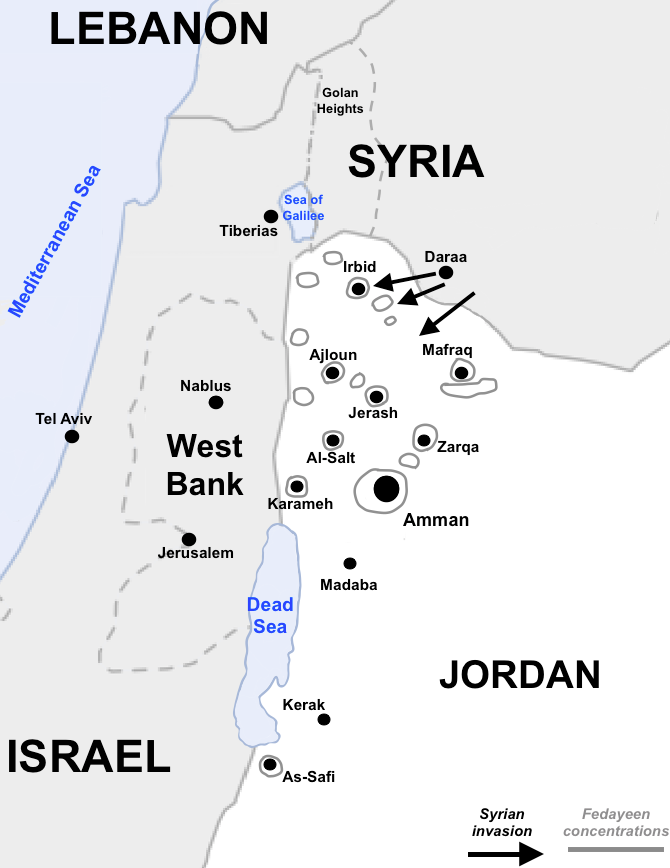 Map of Fedayeen concentrations in Jordan in 1970, prior to Black September. Sourceː